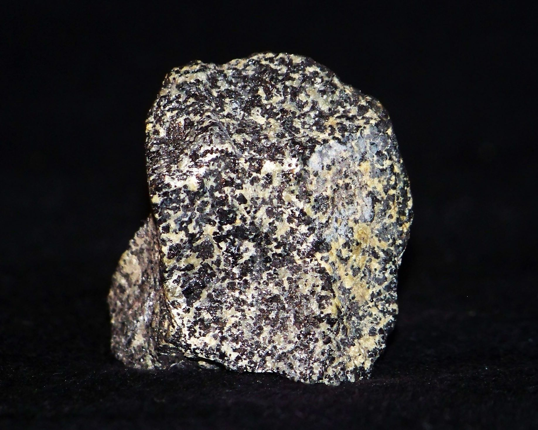 Chromite, localization unknown